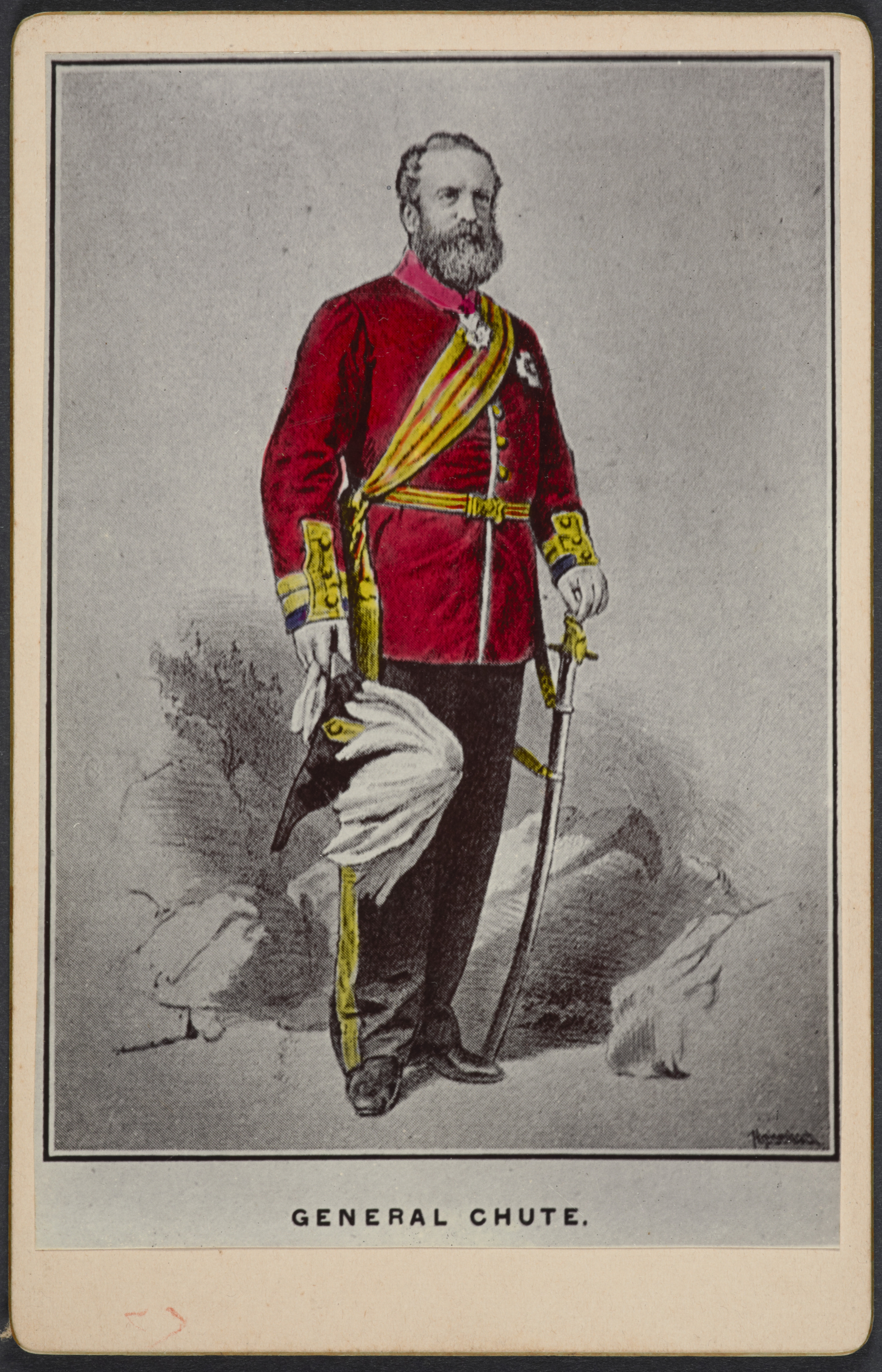 Image of General Trevor Chute in full dress uniform